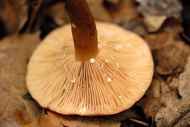 Lactarius spec. The determination of the species shown in this picture has been verified.